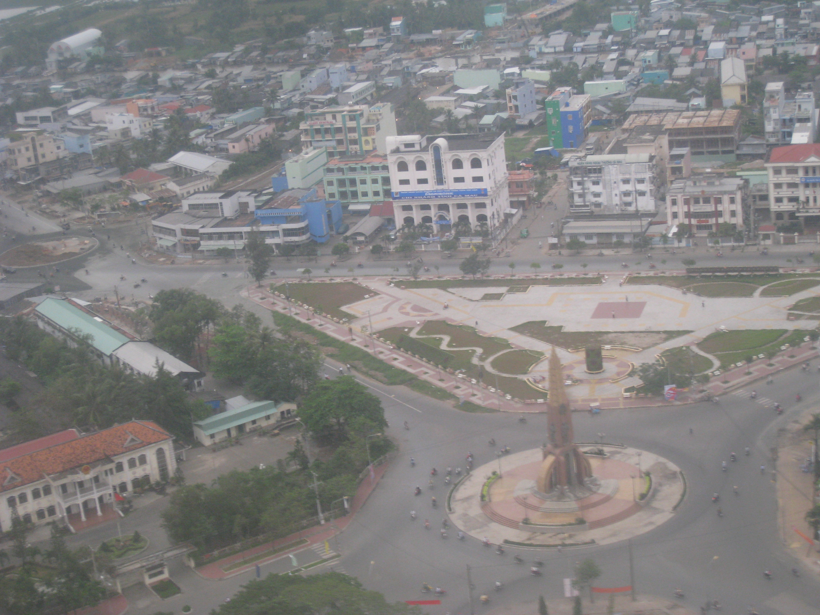 Aerial view of Ca Mau city Central